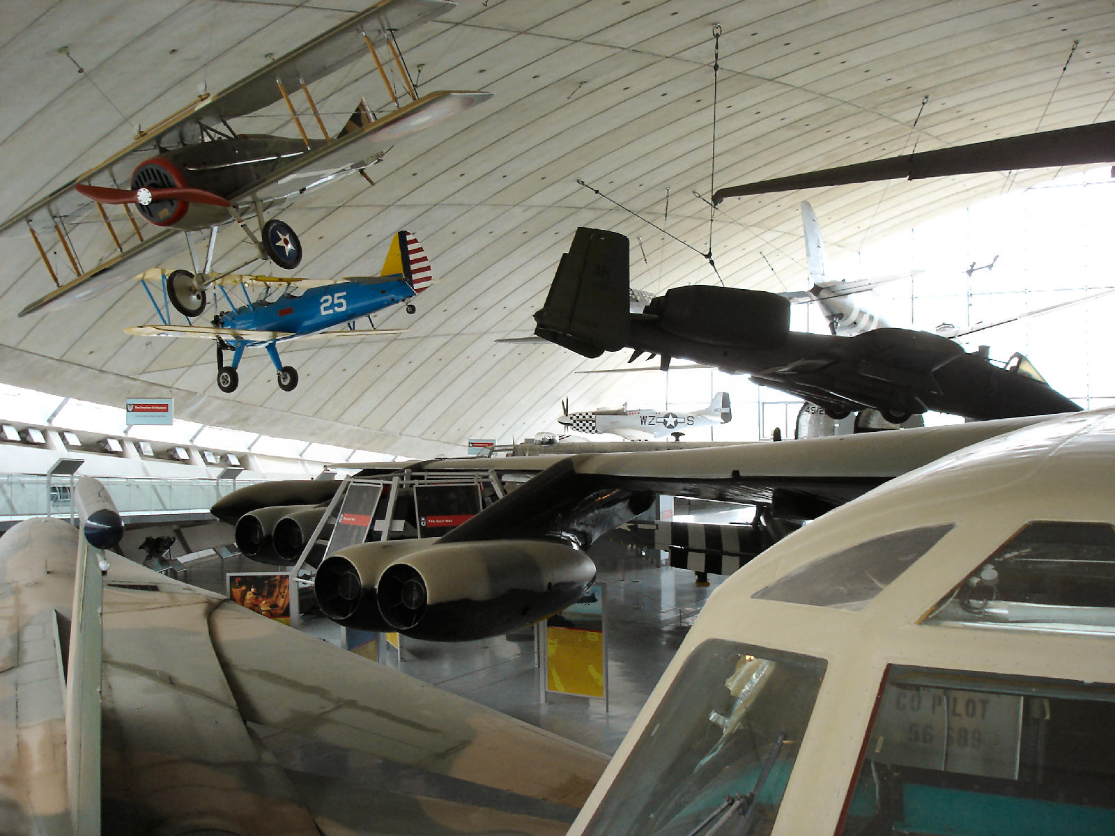 American Air Museum, at the Imperial War Museum Duxford.